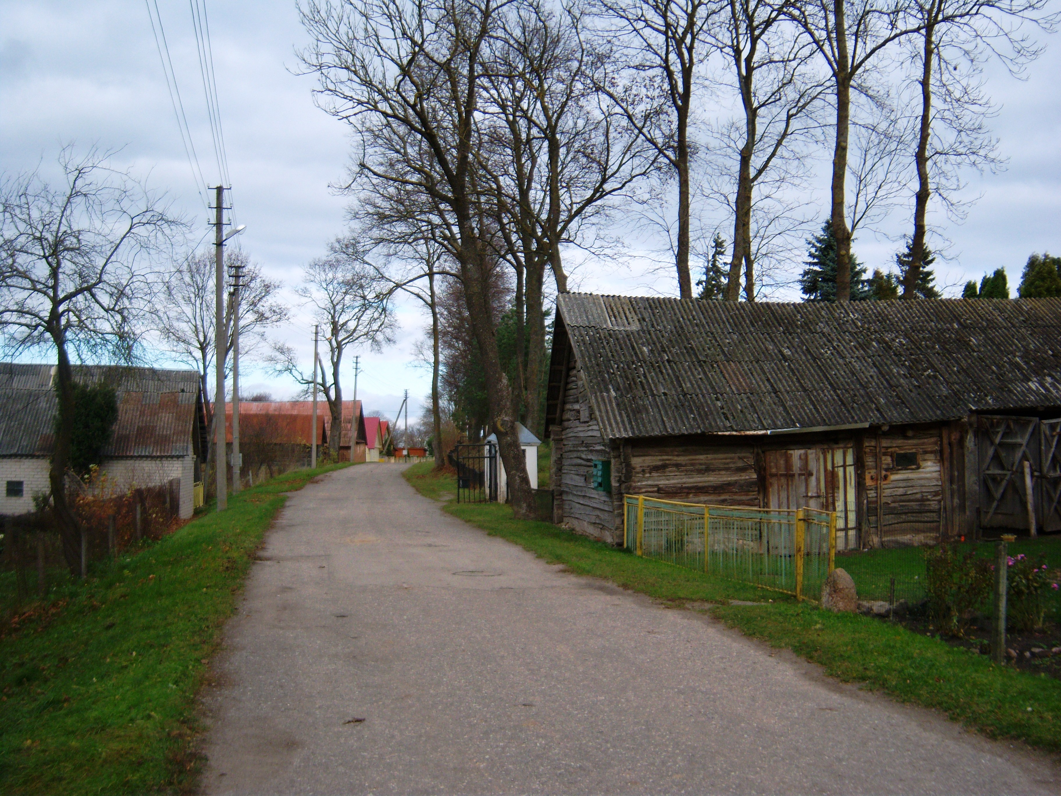 Barklainiai, Panevėžys District, Lithuania